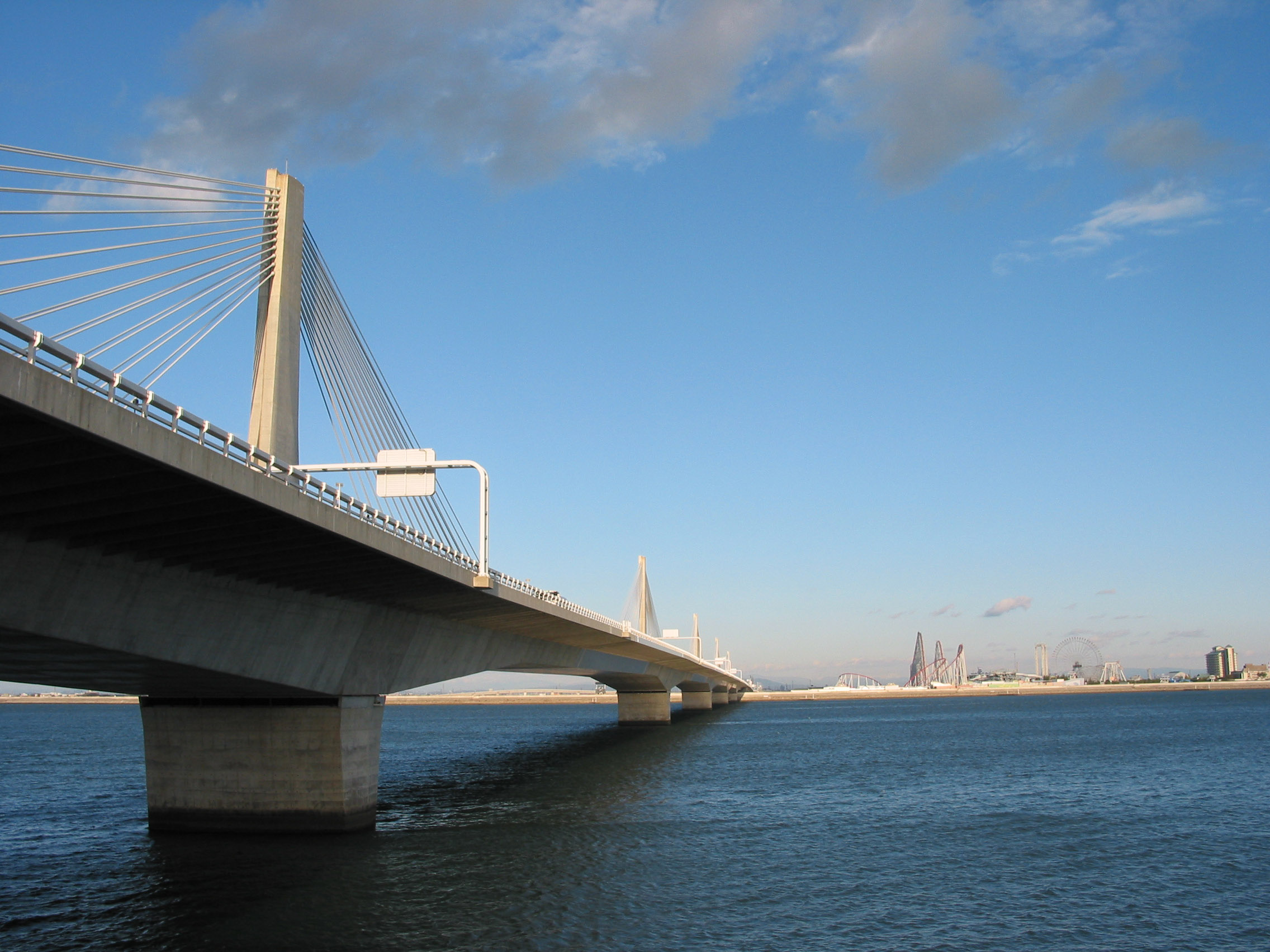 Twinkle-Ibigawabashi (Extradosed bridge across the Ibi-river) トゥインクル・揖斐川橋（エクストラドーズド橋） 三重県桑名市福岡町の揖斐川堤防下流側より撮影